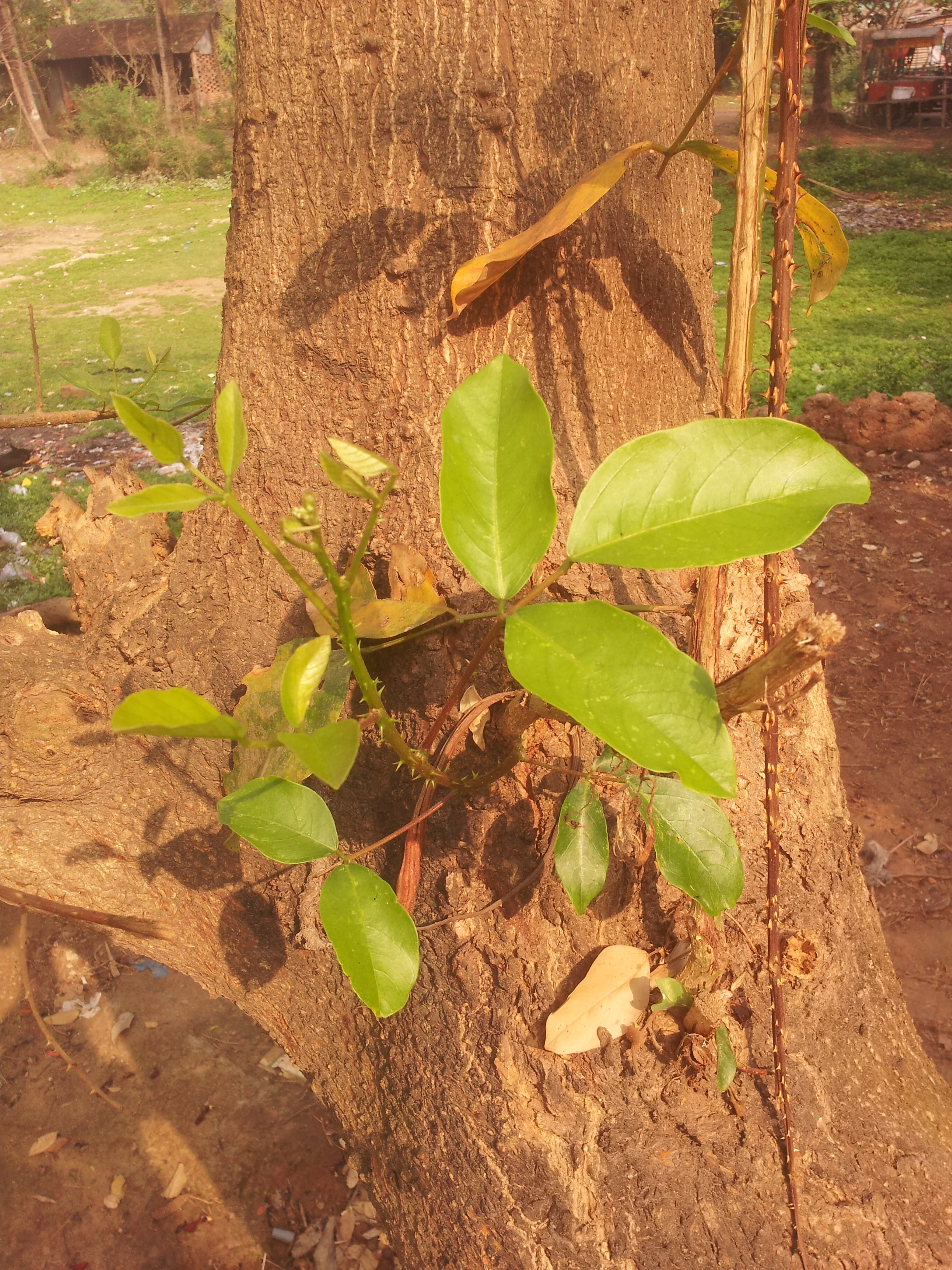 Leaves of erythrina fusca (Tree), Savar, Dhaka.